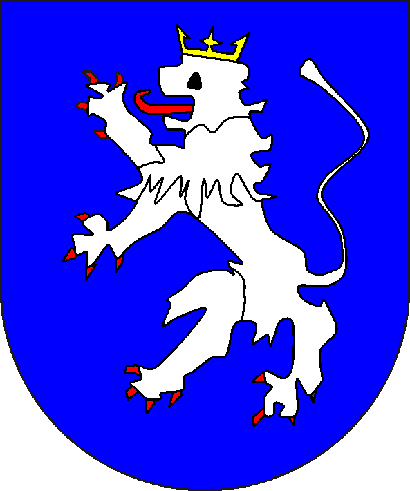 coats of arms of the lordship of Tonna